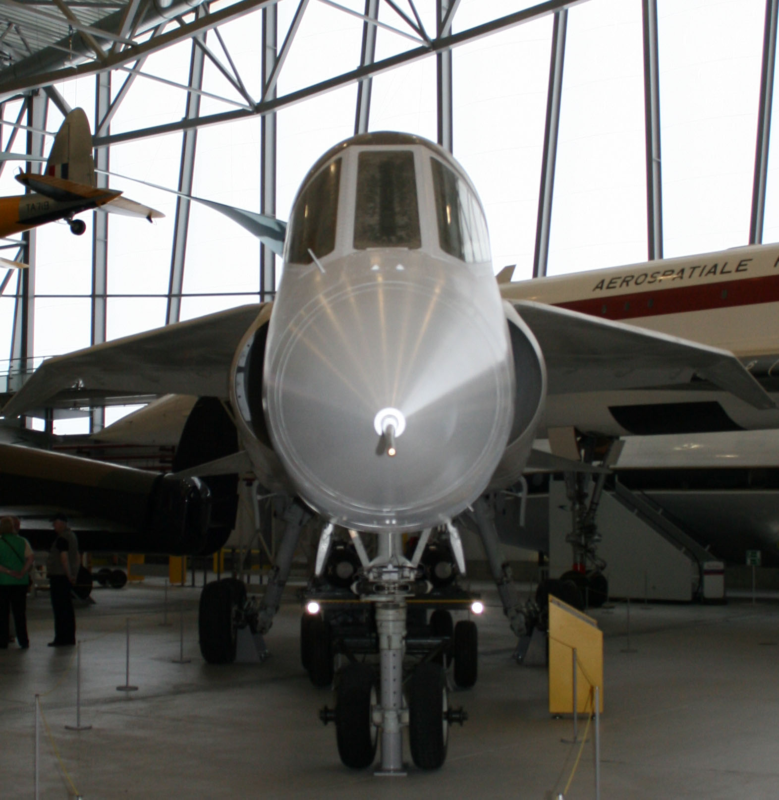 Nose view of TSR-2 prototype, XR222, in the Imperial War Museum at RAF Duxford.